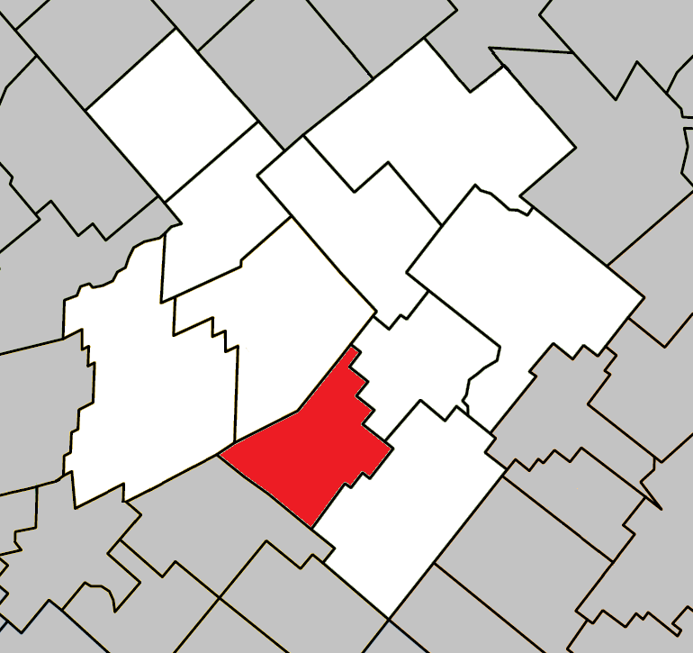 Location of Sainte-Sophie-d'Halifax, Quebec within L'Érable Regional County Municipality.